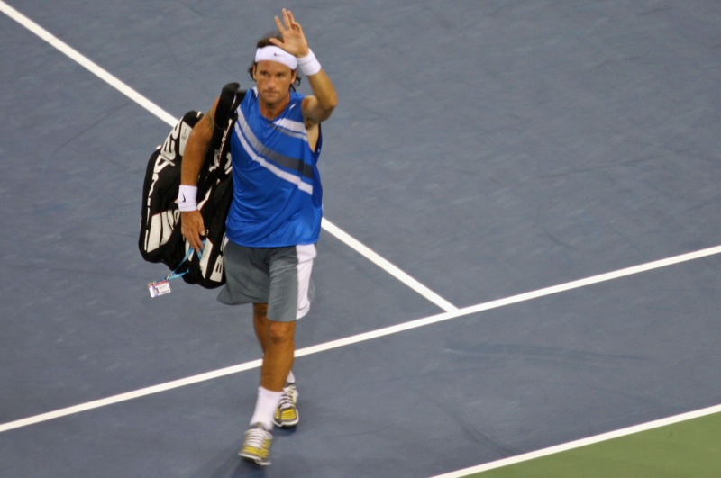 Carlos Moya leaves New York